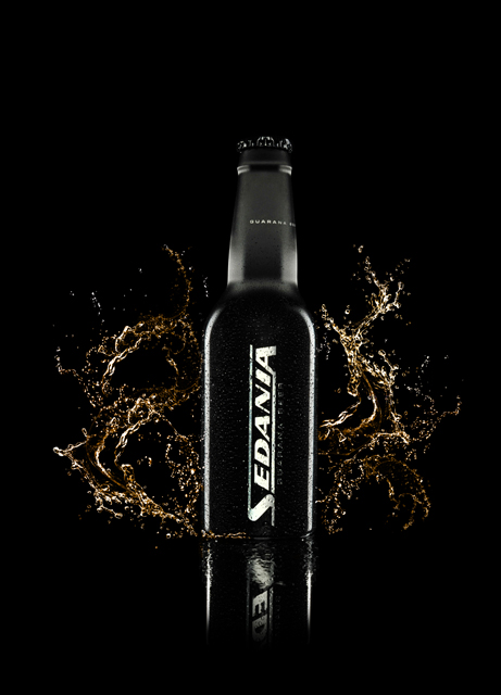 Sedania guarana bio beer